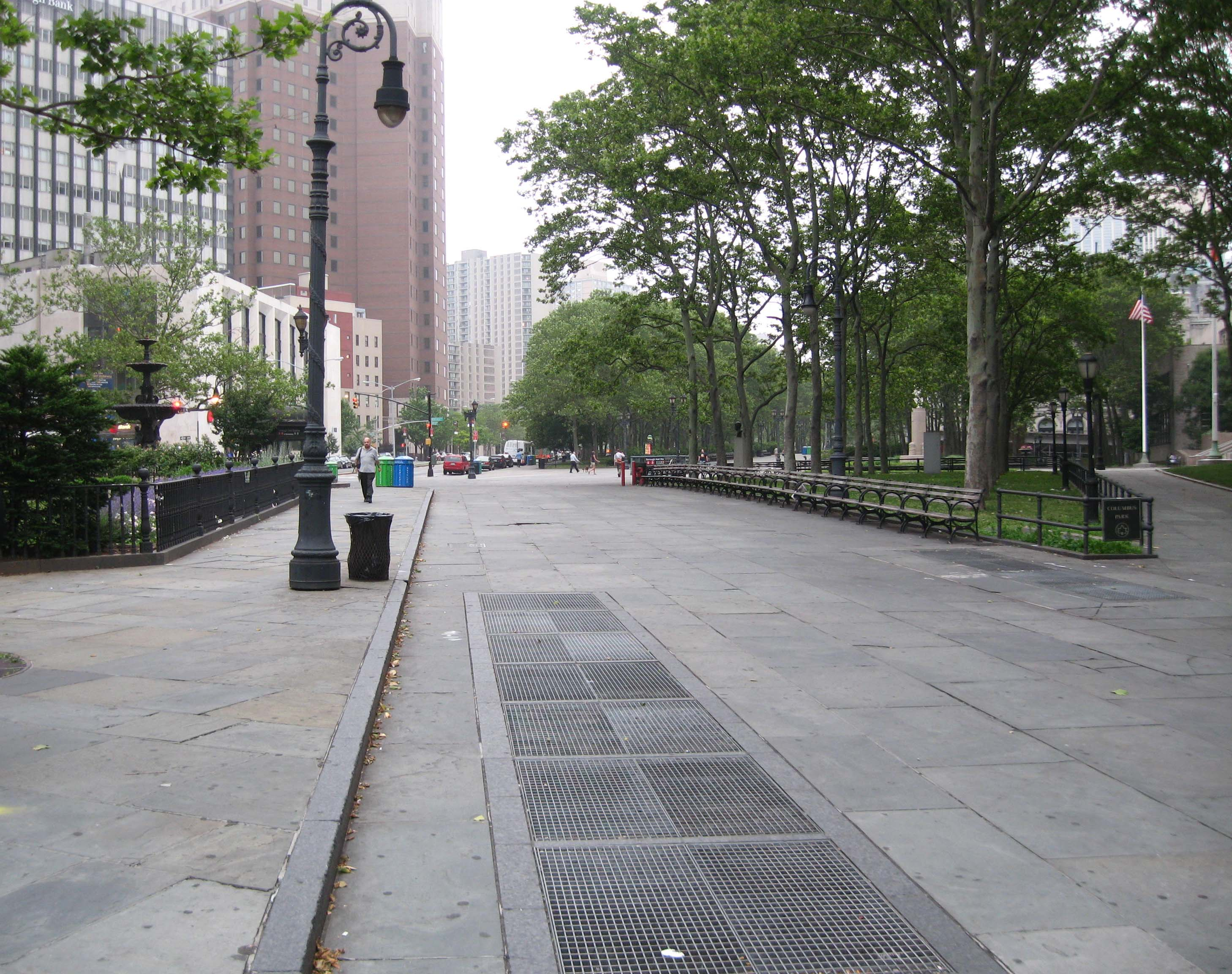 Looking north at destreeted parts of Fulton Street (Brooklyn) (left) and Washington Street (right), east of Brooklyn Borough Hall towards the motor-active Old Fulton Street on a cloudy dusk.